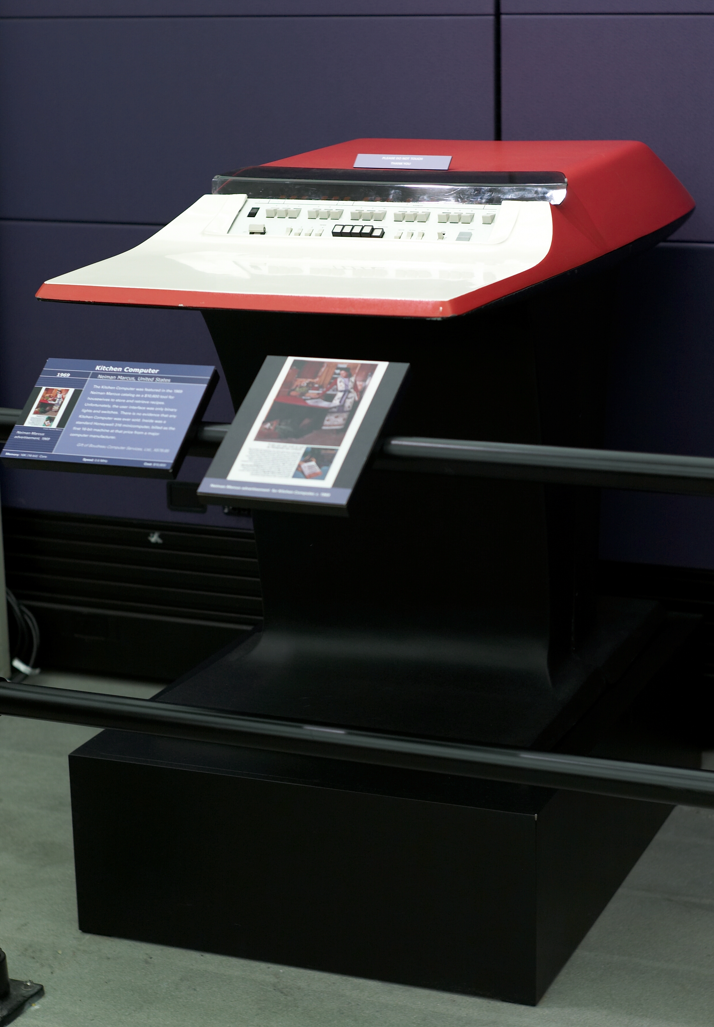 Honeywell Kitchen Computer (or H316): a $10,600 computer for your kitchen to help you with your recipes.